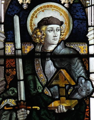 Saint Alban, St Mary, Sledmere, East Riding of Yorkshire, England.